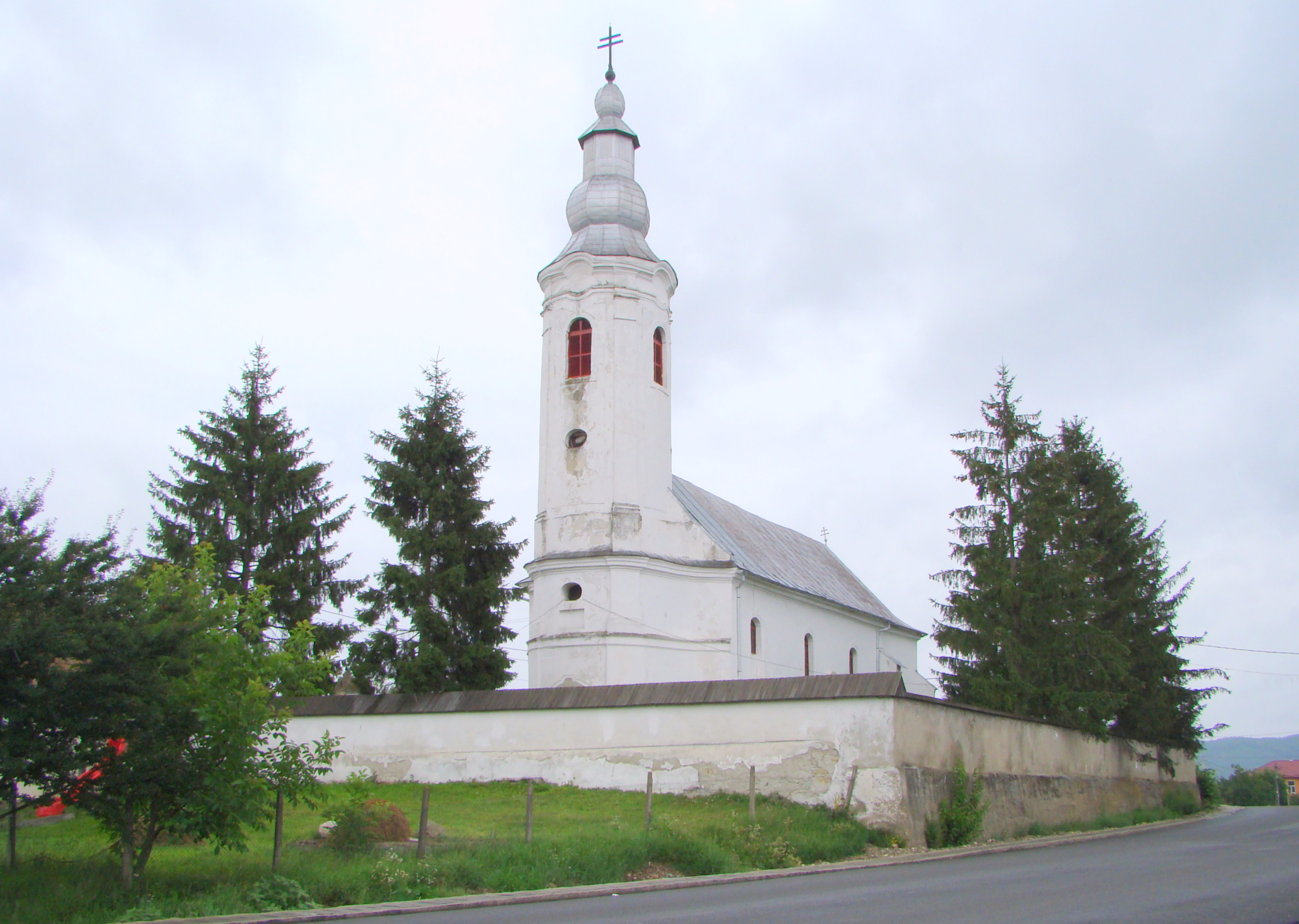 Roman Catholic church in Cristeștii Ciceului (Csicsókeresztúr), Bistriță-Năsăud County, Romania